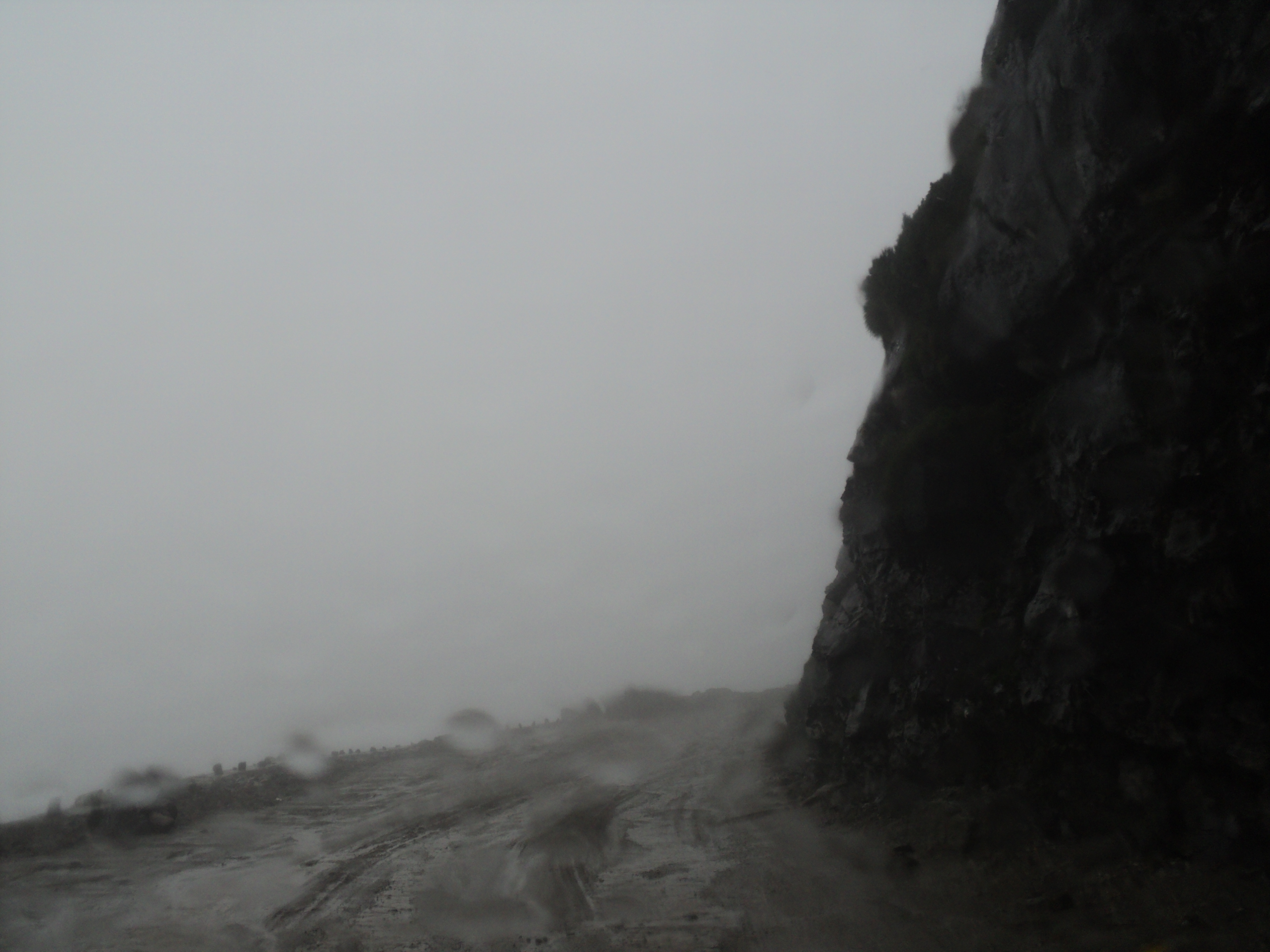 Nathu La, Land Slide